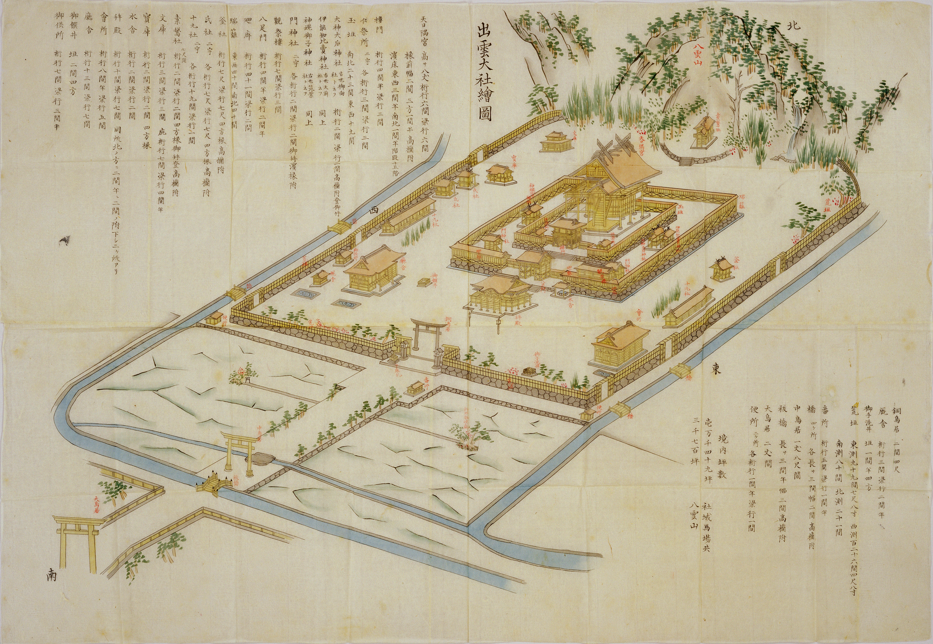 This picture was appended to a request for permission to repair the Grand Shrine at Izumo. The request was submitted by Hayashi Tomoyuki, High Officer of Home Affairs, on behalf of Okubo Toshimichi, Minister of Home Affairs, to Sanjo Sanetomi, Grand Minister of State, on 17 February the 8th year of Meiji (1875). Original size: 54cm and 78cm